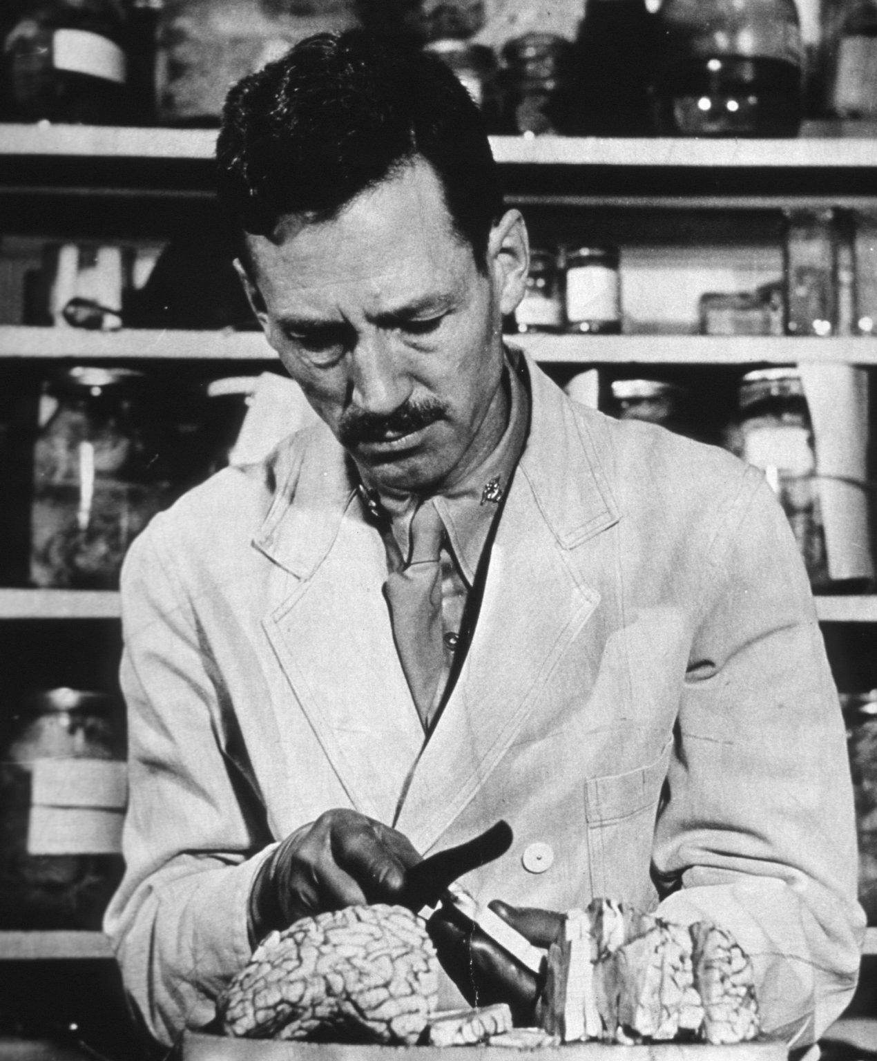 Portrait of Webb Haymaker